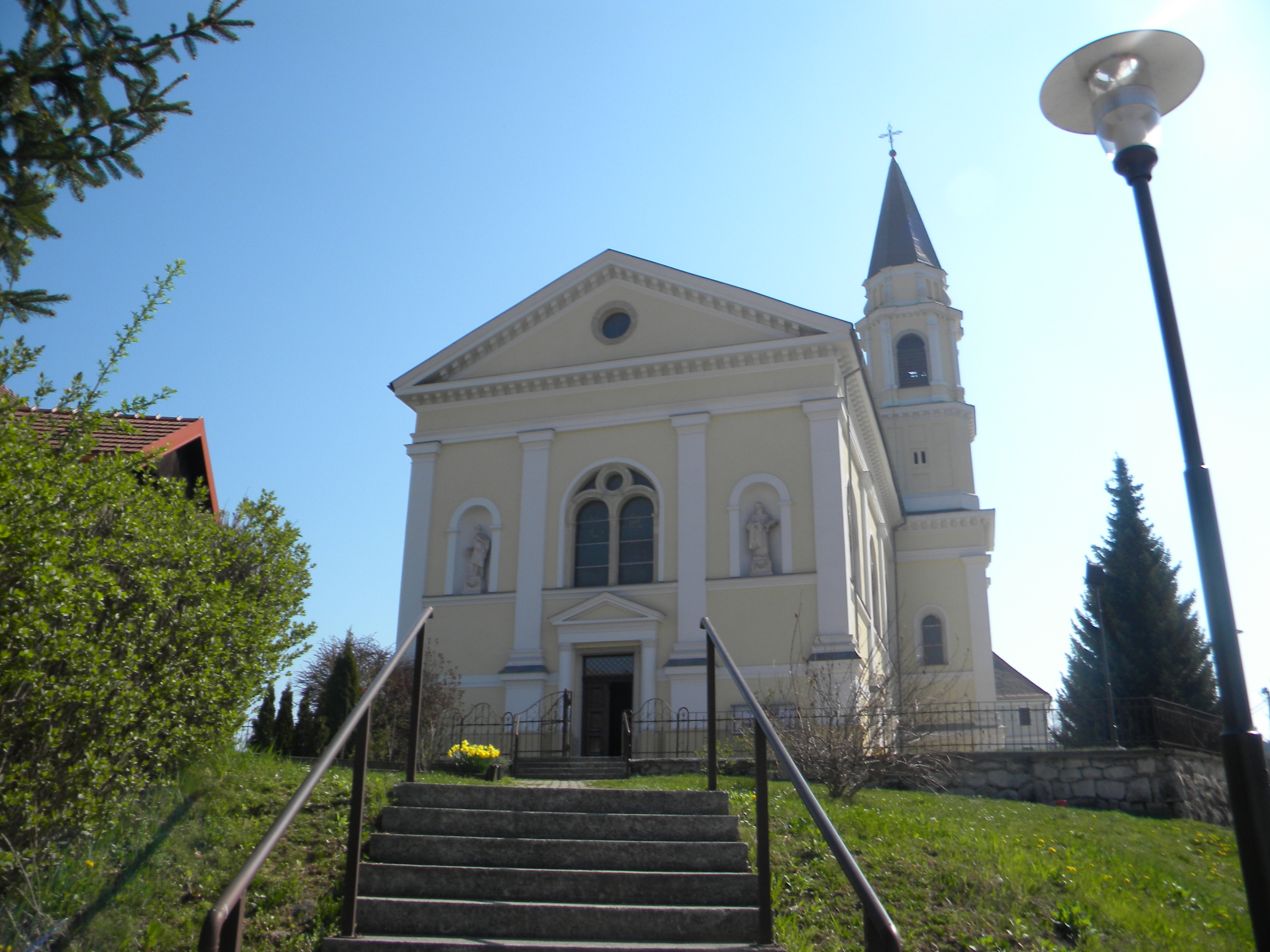 Outside church of st Martin in Teharje